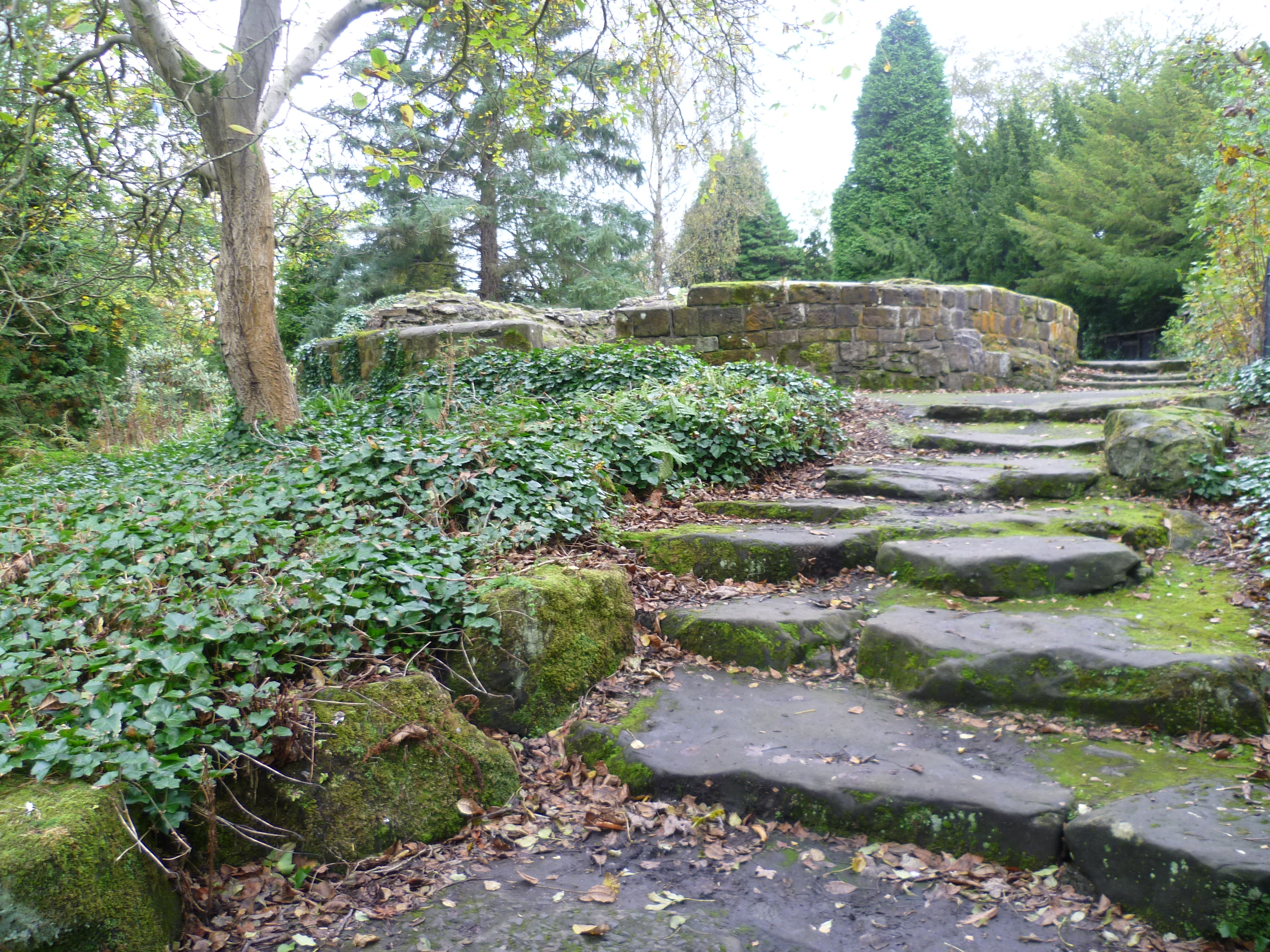 Steps to Malcolm's Tower, Dunfermline